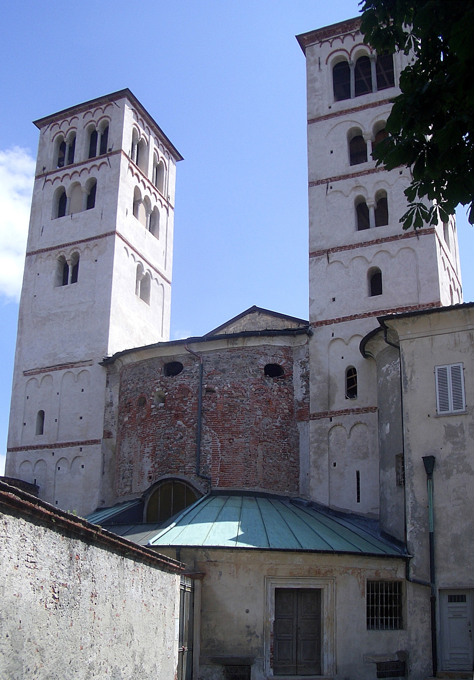 Duomo di Ivrea, the Romanesque bell towers and apse (XI century)